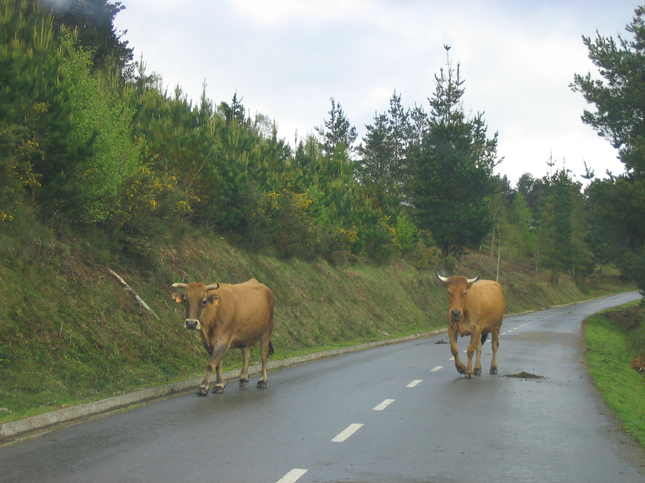 Grazing in Spain